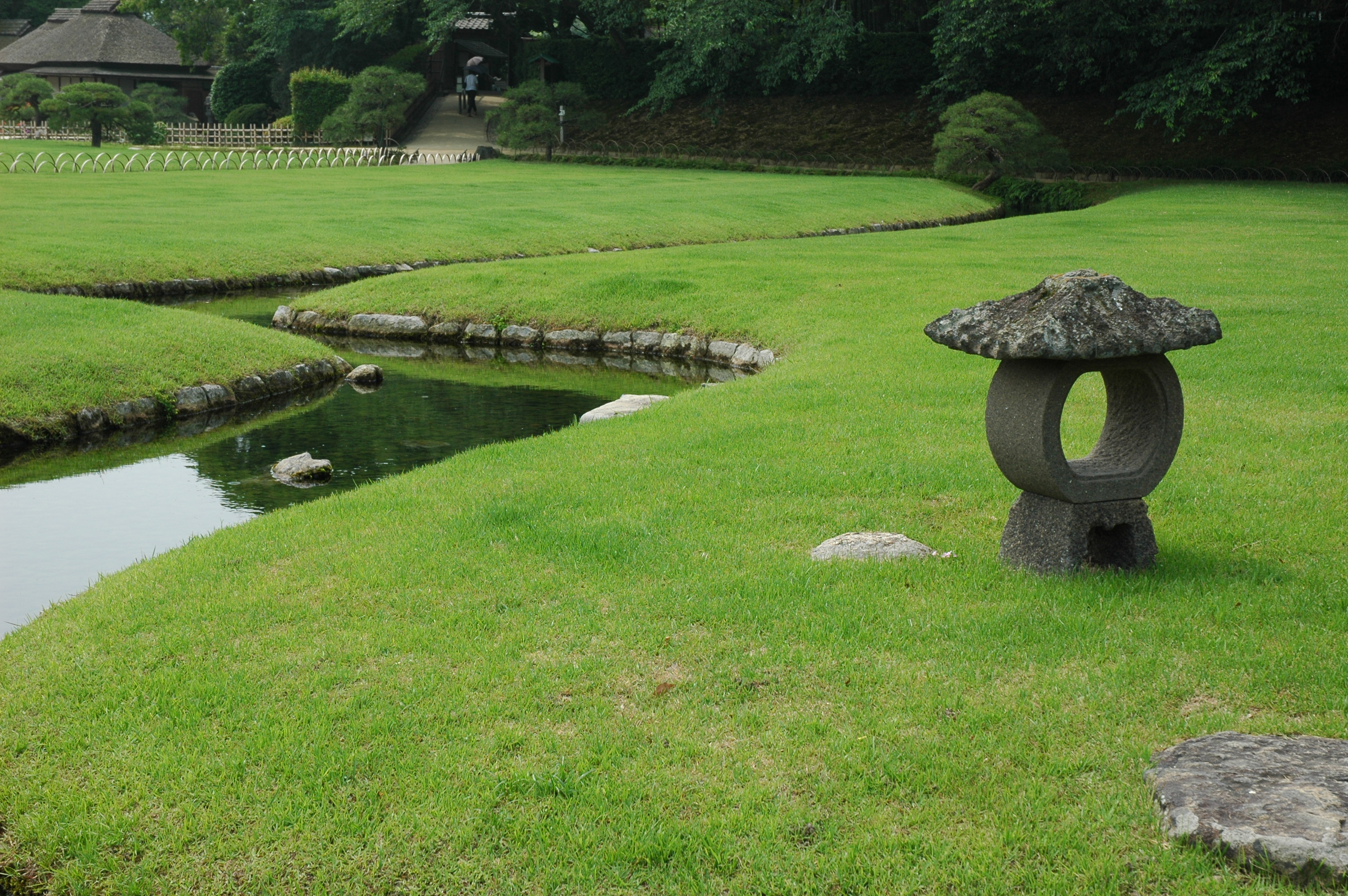 Kyokusui